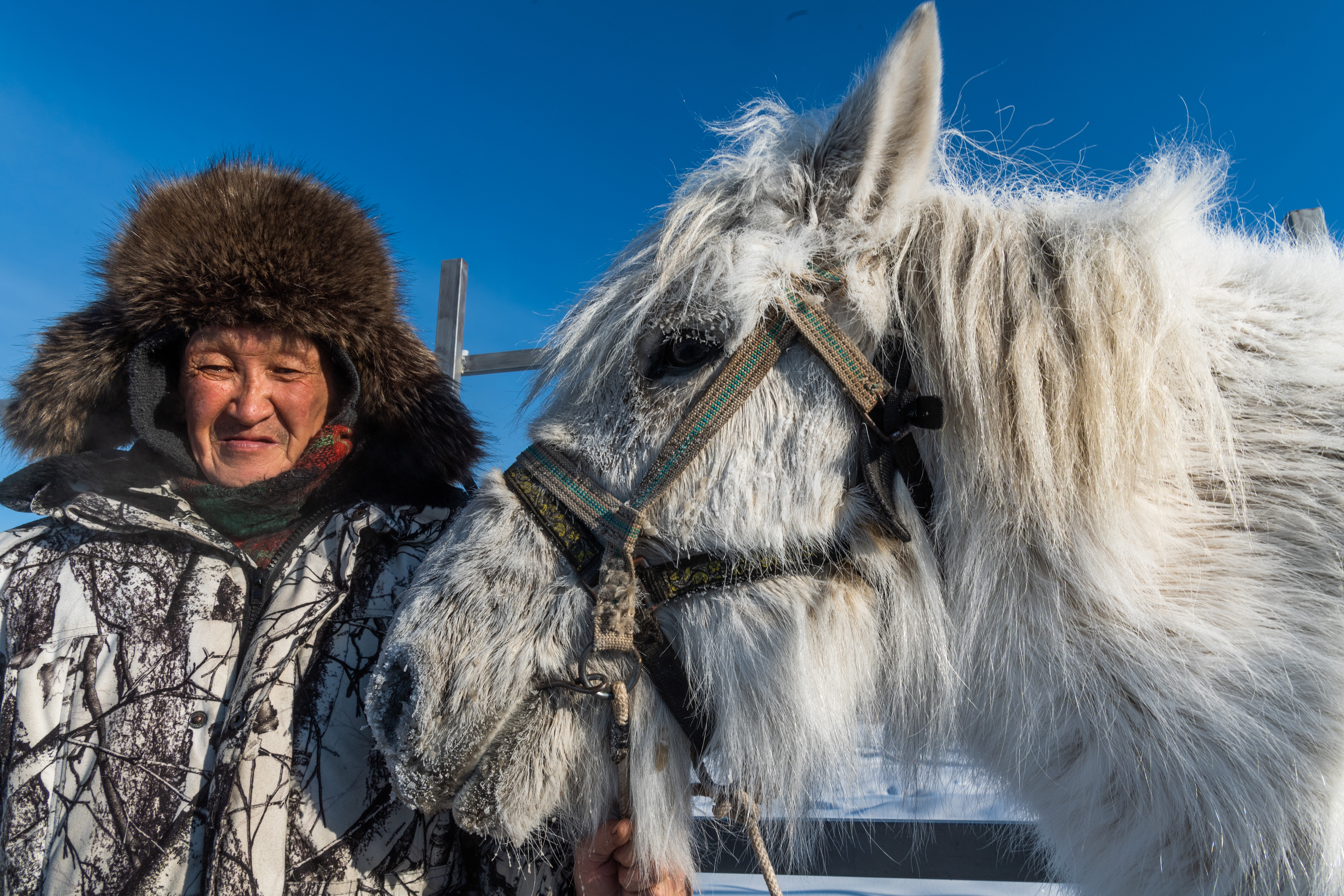 Oymyakon, Sakha Republic, Russia